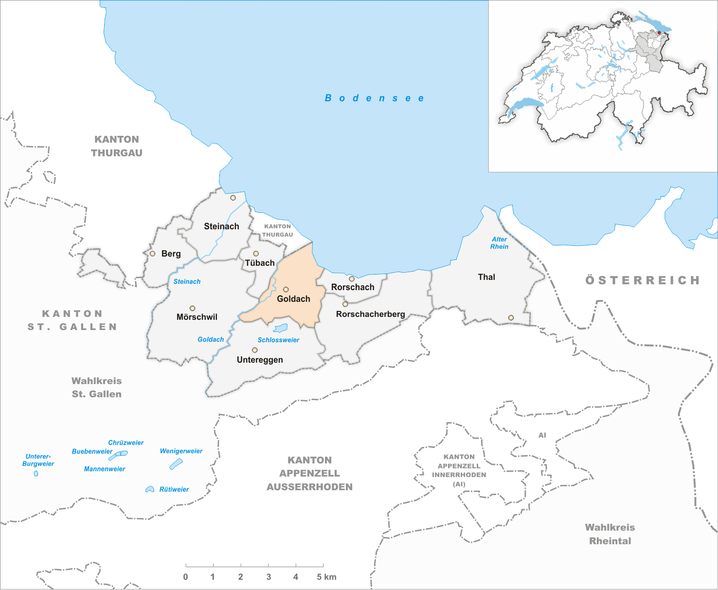 Municipality Goldach